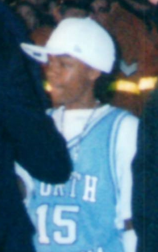 Bow Wow at MuchMusic Video Awards 2002.